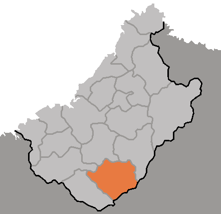 Map of Tongsin, Chagang-do, DPRK, 2006